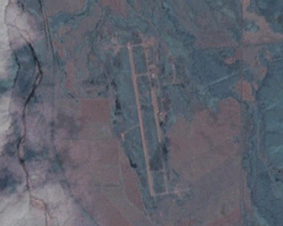 Chuguyevka airfield